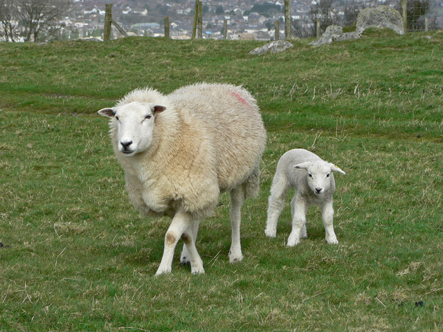 "It's OK son, it's just a human!" The lamb looks as though it hasn't seen one before and the ewe, putting its best foot forward, crosses its legs as though to appear relaxed. ... or maybe for luck!